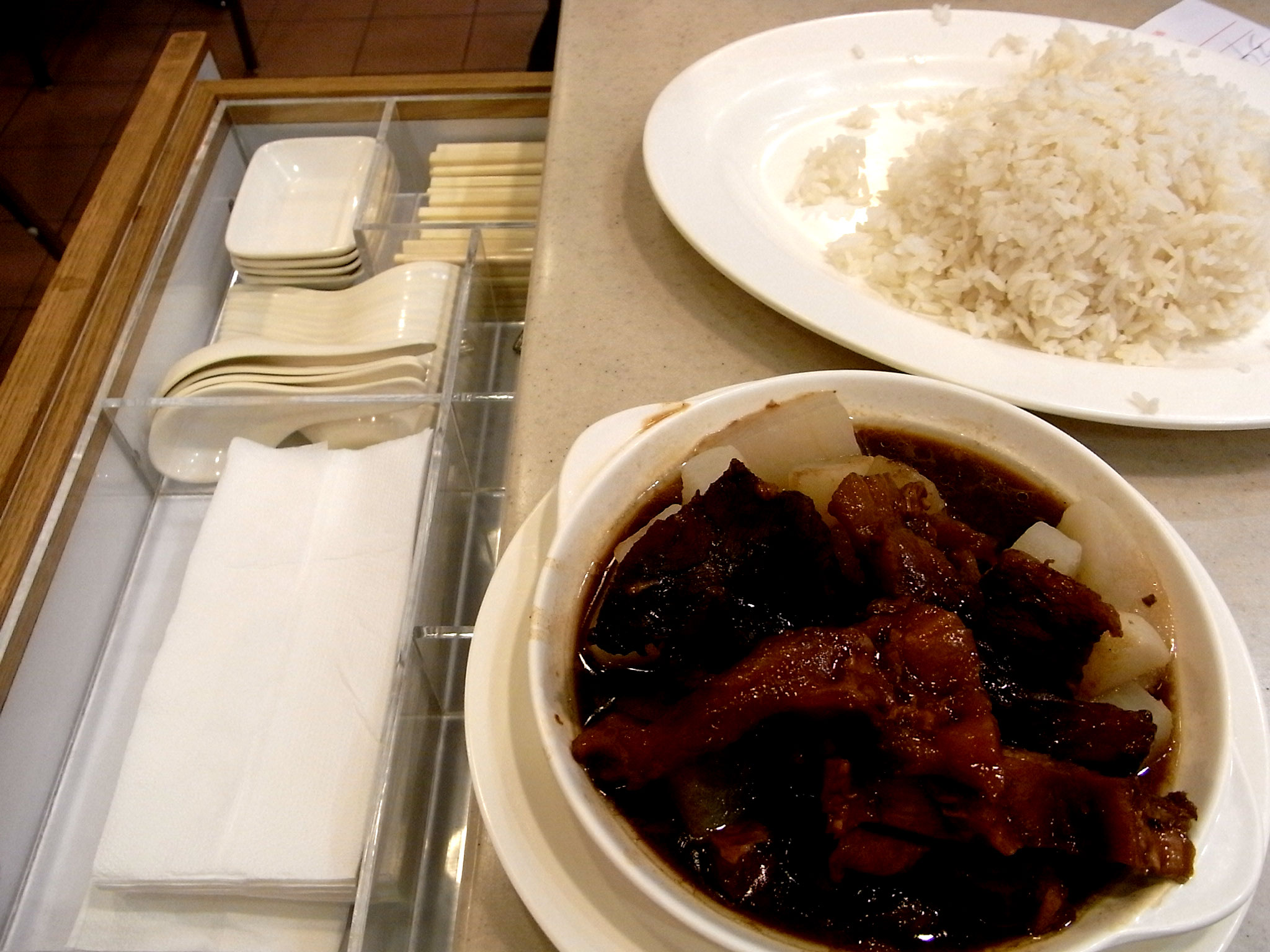 上環 德釗記茶餐廳 zh:,面紙 抽屜 牛腩